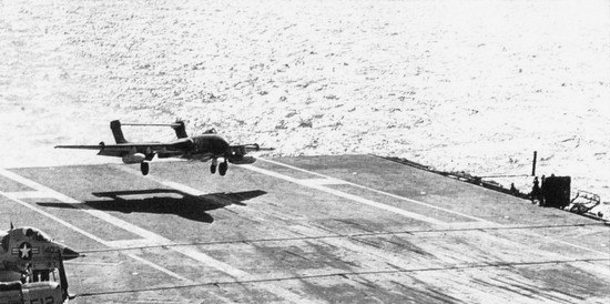 A Royal Navy De Havilland Sea Vixen FAW.1 from 892 Naval Air Squadron landing aboard the U.S. Navy aircraft carrier USS Ranger (CVA-61) off the Philippines, between 7 and 14 January 1963. 892 NAS was assigned to the aircraft carrier HMS Hermes (R12) for a deployment to the Western Pacific from May 1962 to October 1963.